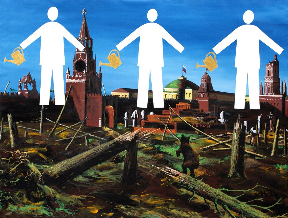 Igor A. Novikov: Oil on Canvas, 145 x 190 cm. 2003